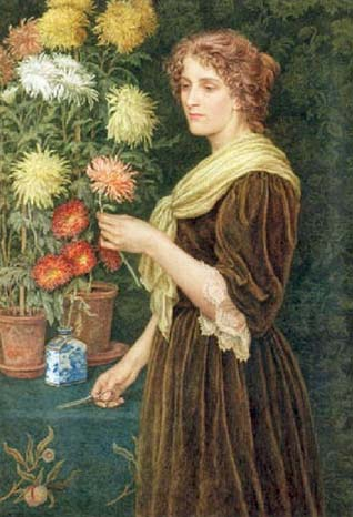 Edith Martineau - Woman with flowers